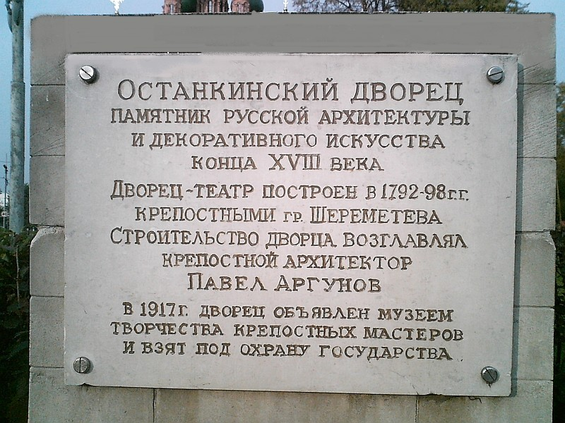 Memorial Ostankino Moscow